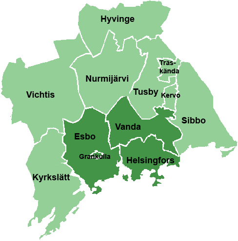 Based on Image:Helsingin seutu.png which is made by user Vkem. This map has Swedish names on it.